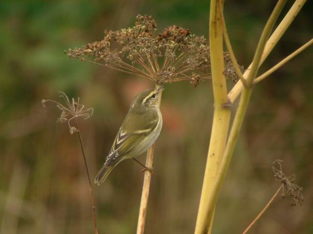 Yellow-browed Warbler (Phylloscopus inornatus), Kilnsea, East Riding of Yorkshire, England.This tiny bird (not much bigger than a Goldcrest) breeds in Siberia and normally winters in south-east Asia but a small number of birds set off in the 'wrong' direction and end up in Western Europe. In easterly winds between late September and late October it is usual for a few to turn up at Spurn. The inverted commas on wrong is because some successfully winter in western Europe and return back in spring.